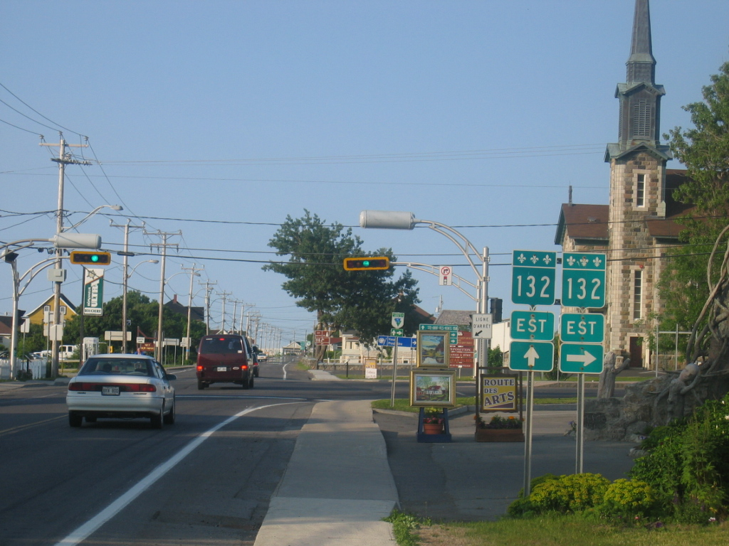 The start and endpoints of the Gaspesian section of the route 132 (Quebec), Sainte-Flavie, Québec